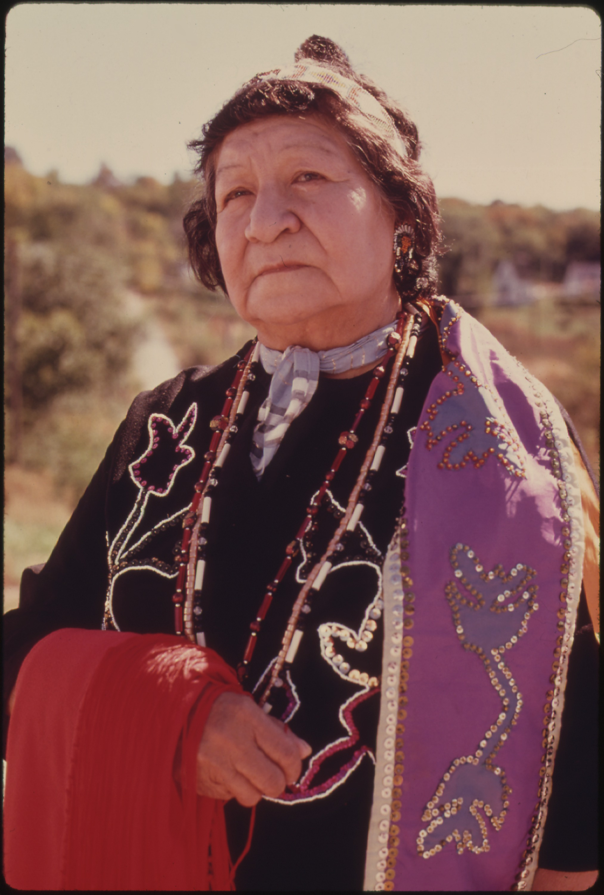 Scope and content: Original caption: Mary Louise White Cloud Rhodd, granddaughter of Chief White Cloud who died in 1940 at the age of 100. Mrs. Rhodd is wearing a modern version of the Iowa Indian tribal costume. The floral designs were traced from beadwork of old costumes. The Iowans were very artistic and known for their elaborate beadwork. The tribe now numbers only a few hundred. The picture was taken at White Cloud, Kansas, near Troy. The town was named after the Iowa Chief.